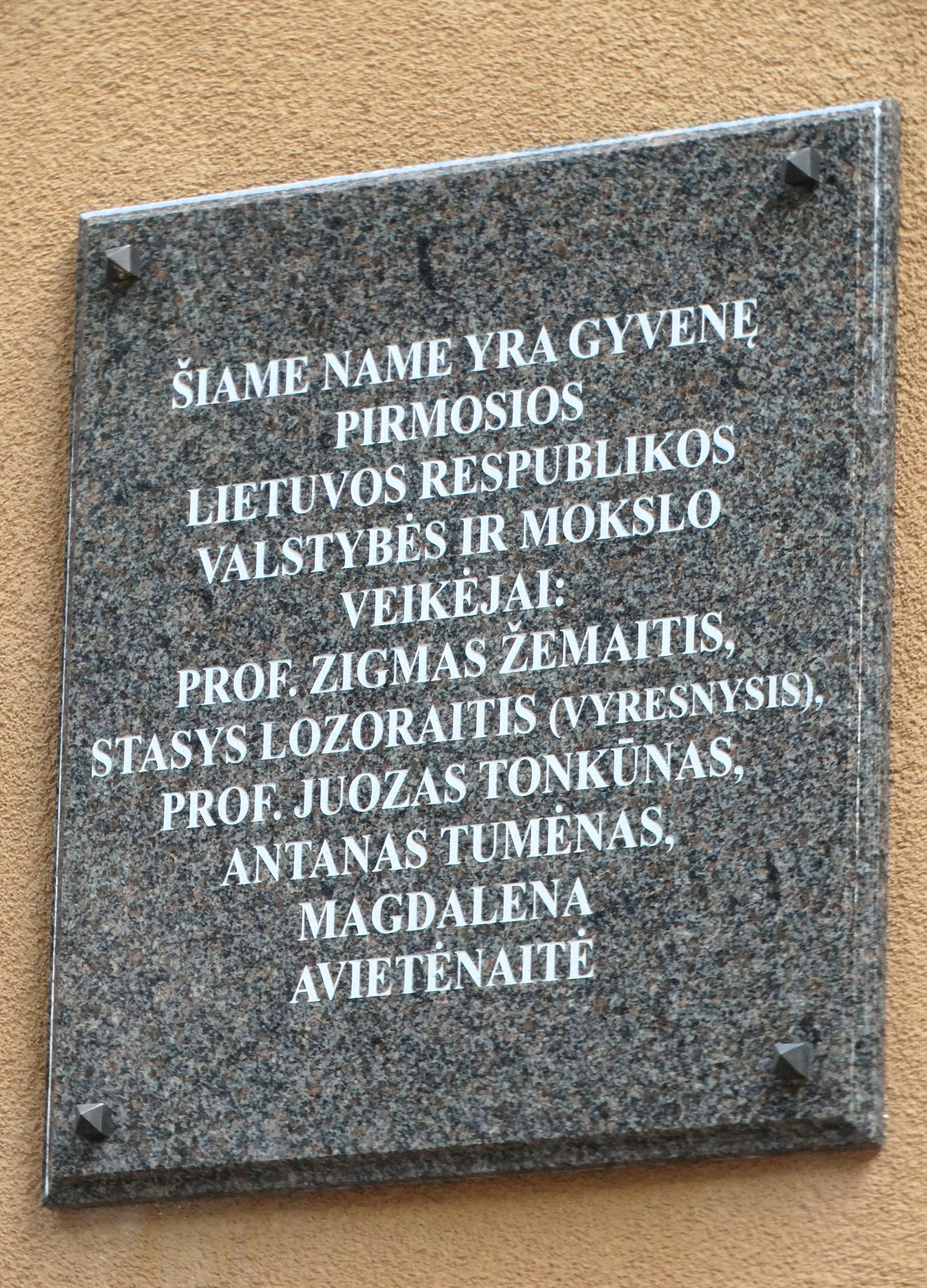 Memorial plaque to interwar personalities Žemaitis, Lozoraitis, Tonkūnas, Tumėnas Avietėnaitė, Putvinskio 12, Kaunas, Lithuania